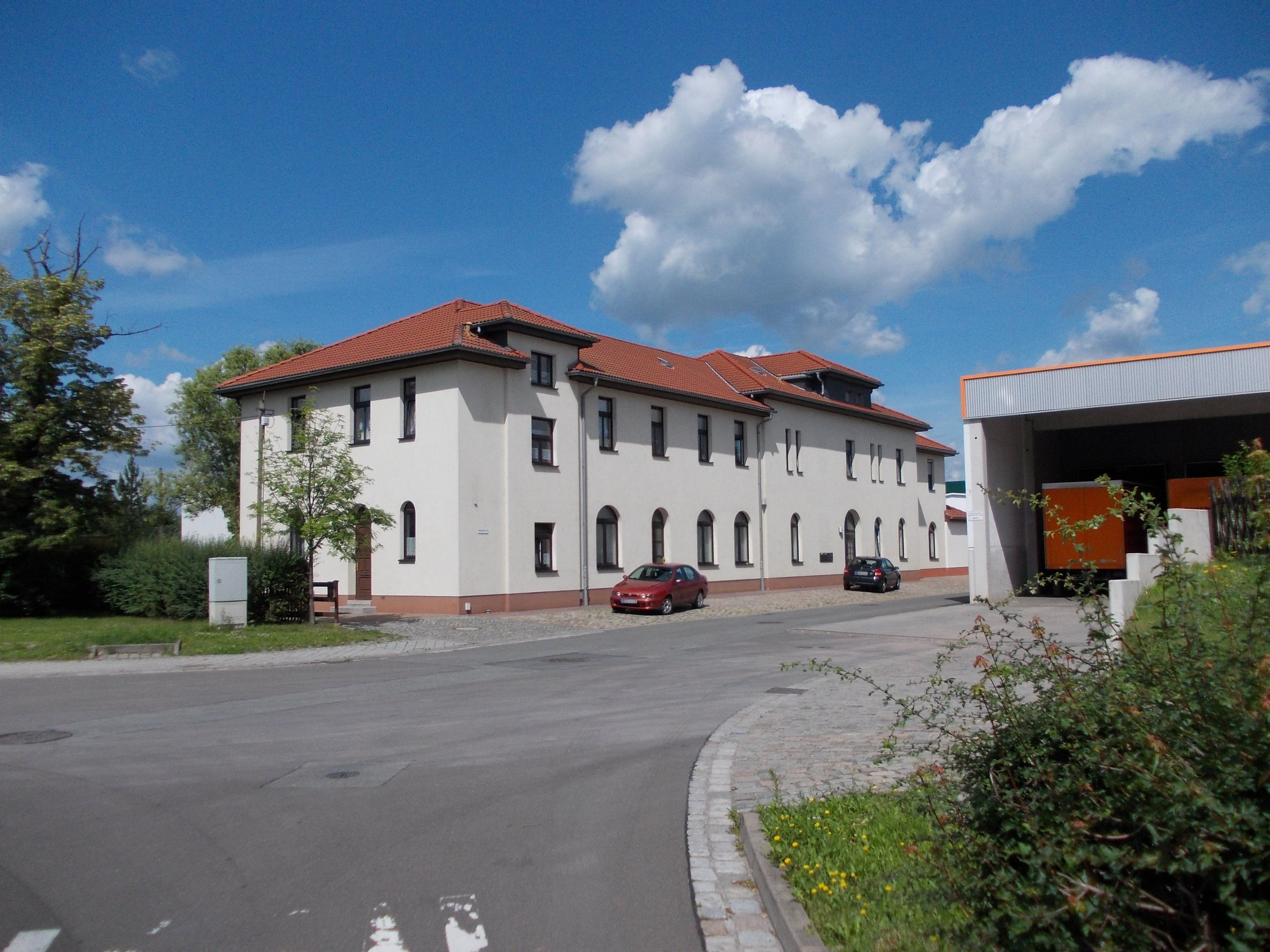 Former Lucka train station of the Gaschwitz-Meuselwitz railway line (district of Altenburger Land, Thuringia)